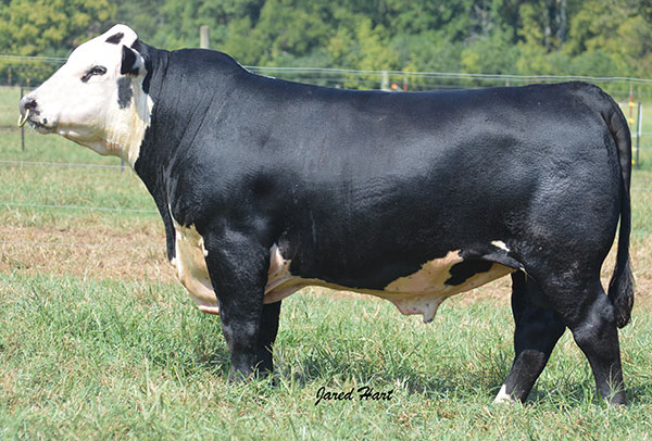 Black Hereford Bull Apollo Creed from JM cattle Co., Lawrenceburg, TN, USA.